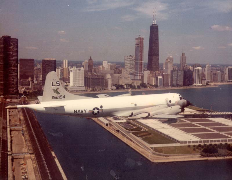 VP-60 (LS 4) P-3A (BuNo 152154) in flight near Chicago, IL. Photo from the Naval Historical Center. Repository: San Diego Air and Space Museum Archive